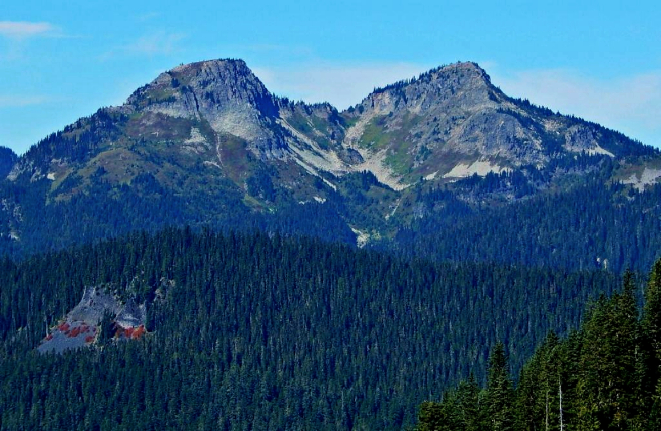 Iron Mountain (left) and Copper Mountain seen from Inspiration Point on Stevens Canyon Road in Mount Rainier National Park.